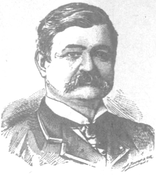 James O'Donnell (Michigan Congressman)